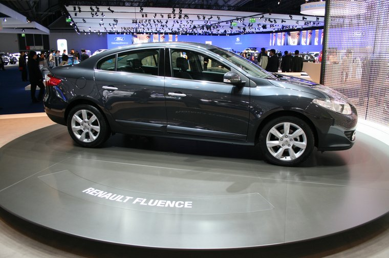 Renault Fluence